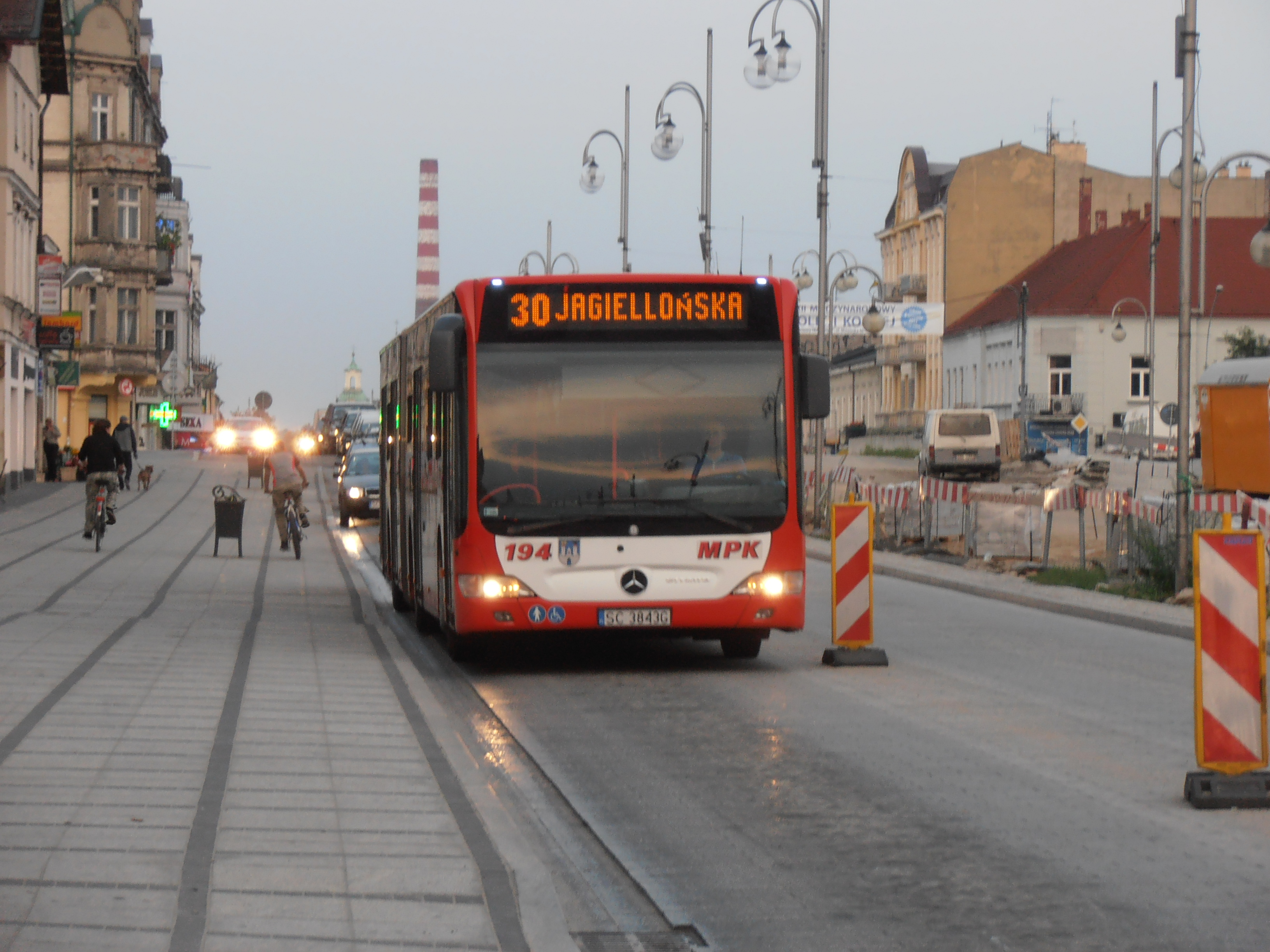 Mercedes-Benz Citaro G O530G bus (#194, reg. SC 3843G) in Częstochowa, Poland. Built 2006, MPK Częstochowa operator.